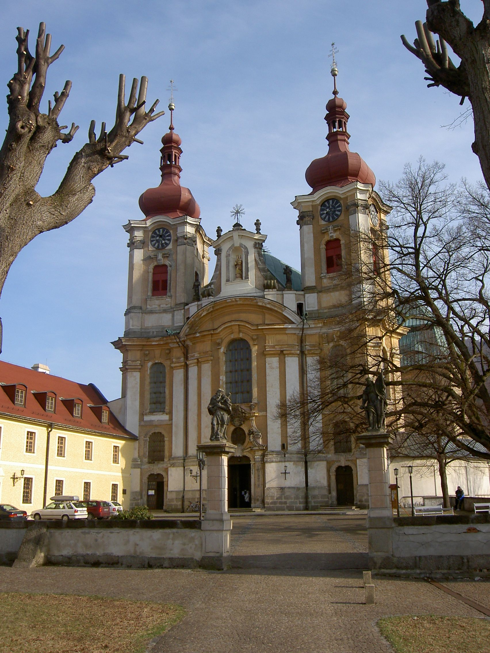 Basilica of the Visitation in Hejnice, Liberec District, Czech Republic. Front view.